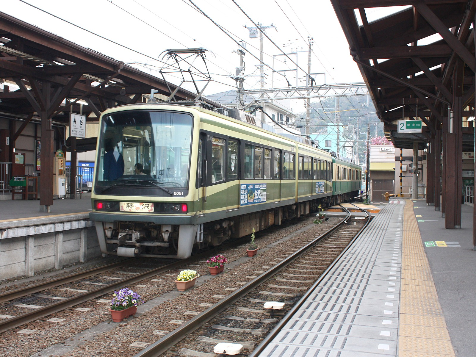 Enoden Type 2000 at Hase Station